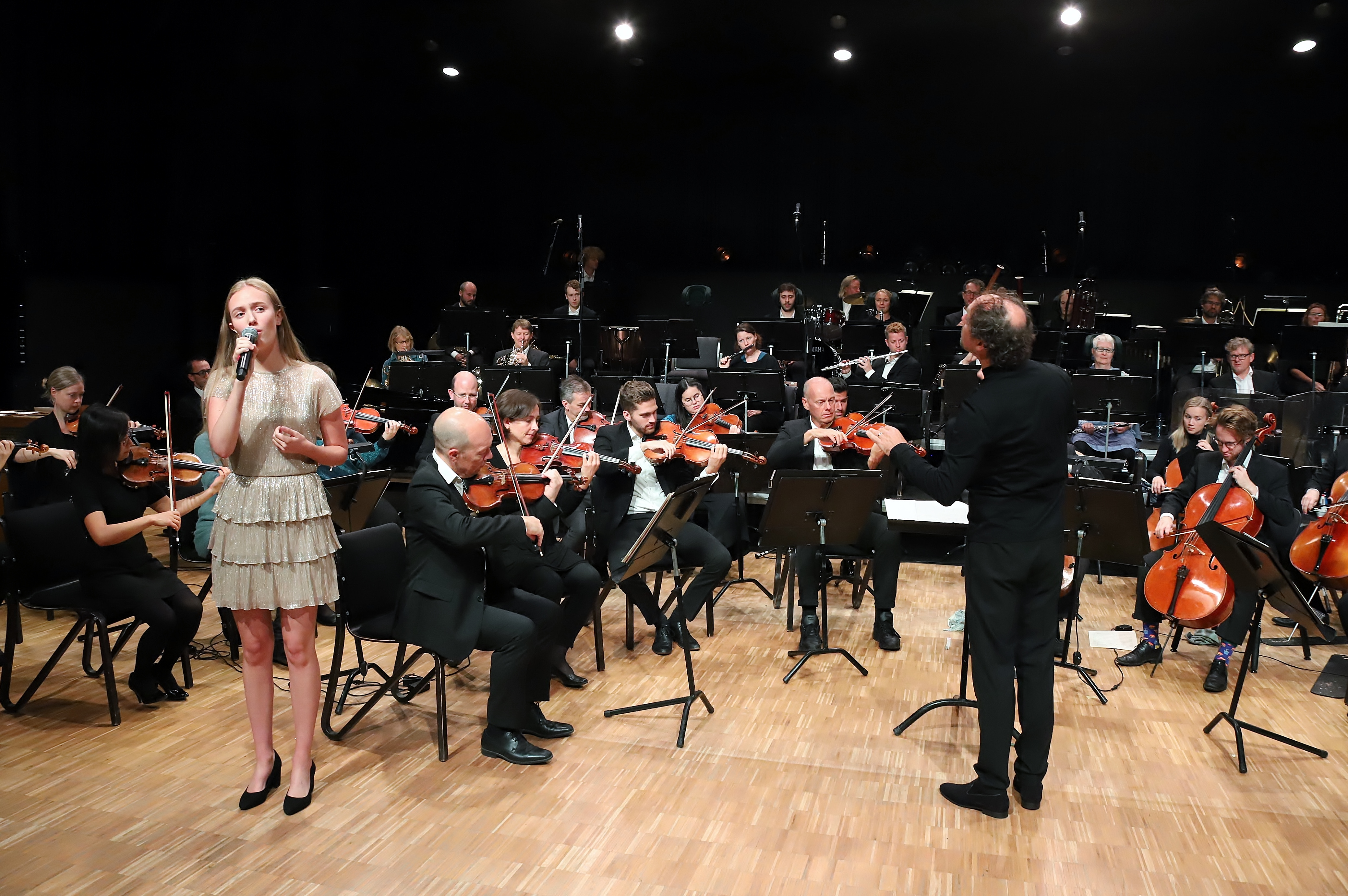 Norwegian singer Sigrid Haanshus with the Norwegian Broadcasting Orchestra